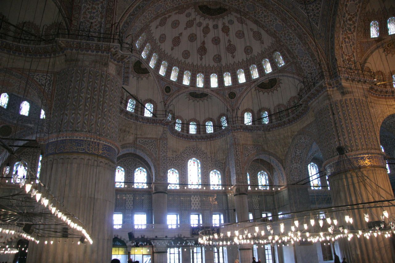 Inside the blue mosque in Istanbul, also known as mosque of Sultan Ahmet I. (photo dated 14.3.2005) More images of Istanbul are available on my web site